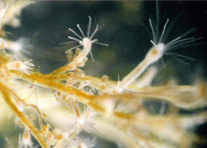 Bougainvillia muscus (Allman, 1863). Bougainvillia ramosa is an unaccepted synonym.